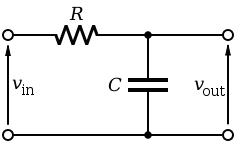 sdasfa